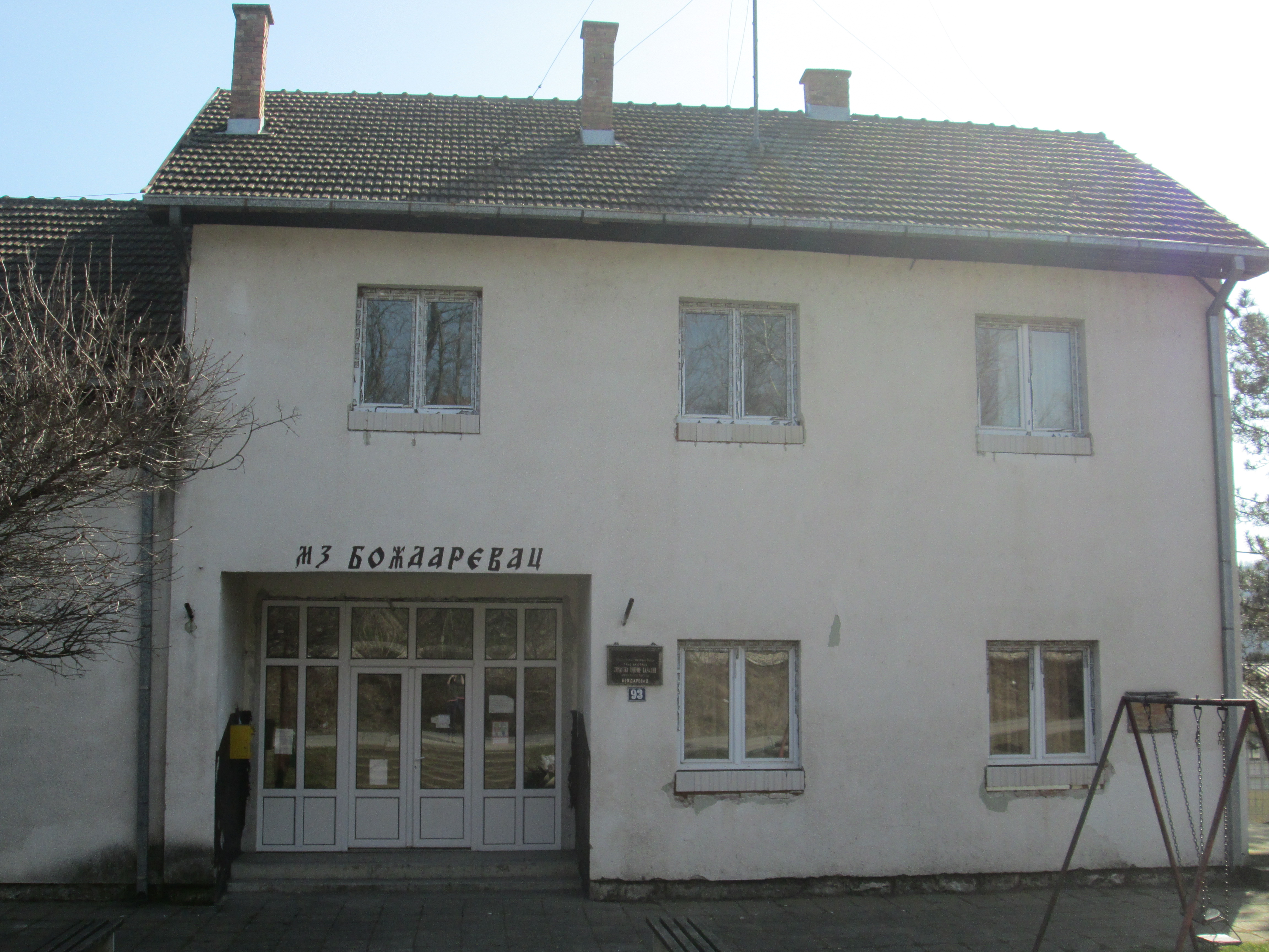 Community Center, Boždarevac Српски (ћирилица): Месна заједница, Бождаревац